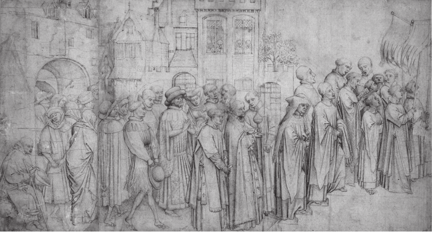 Procession with the most holy. Drawing of Vrancke van der Stockt, ca 1450-60